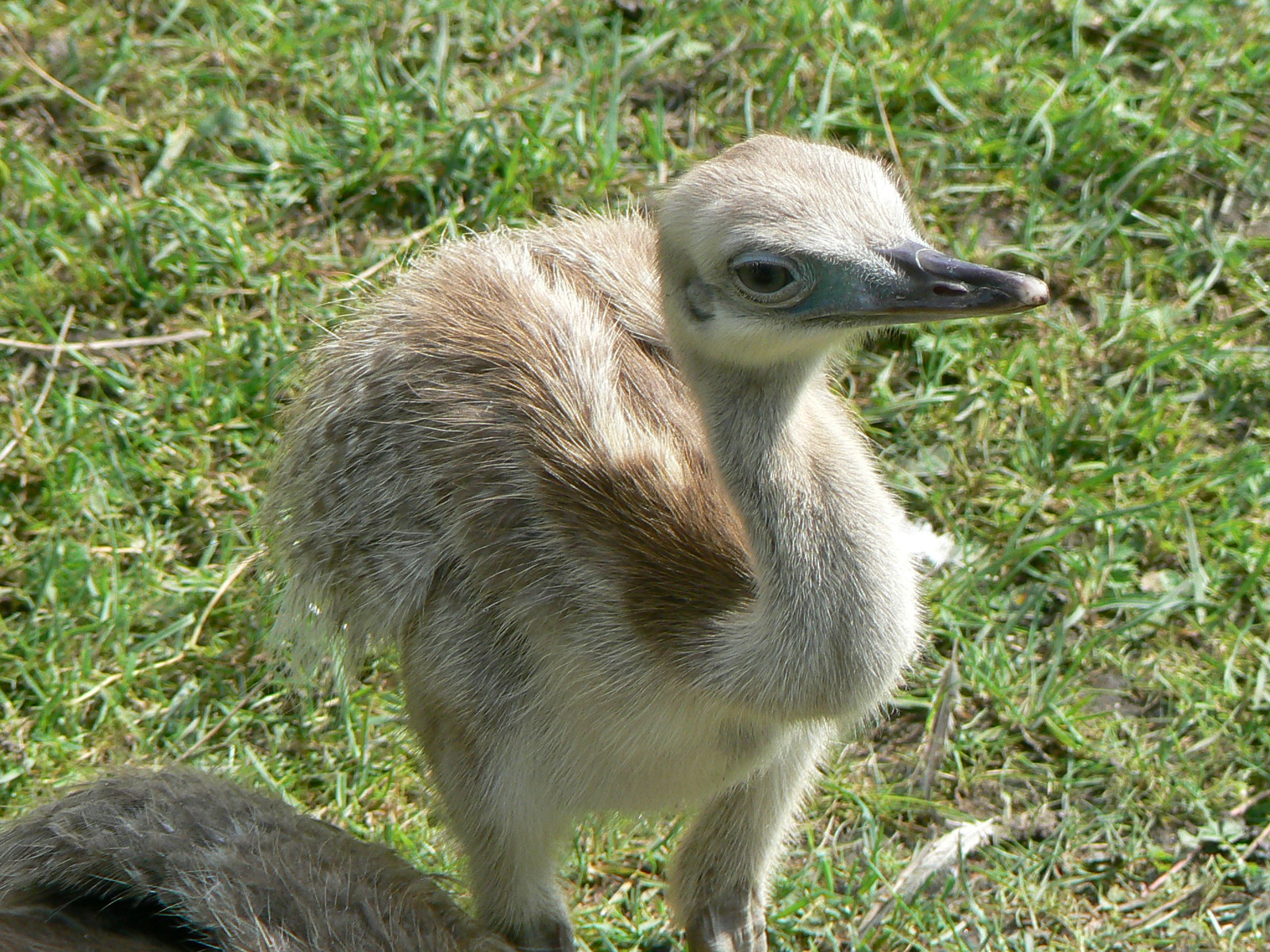 rhea americana / Greater rhea / nandu